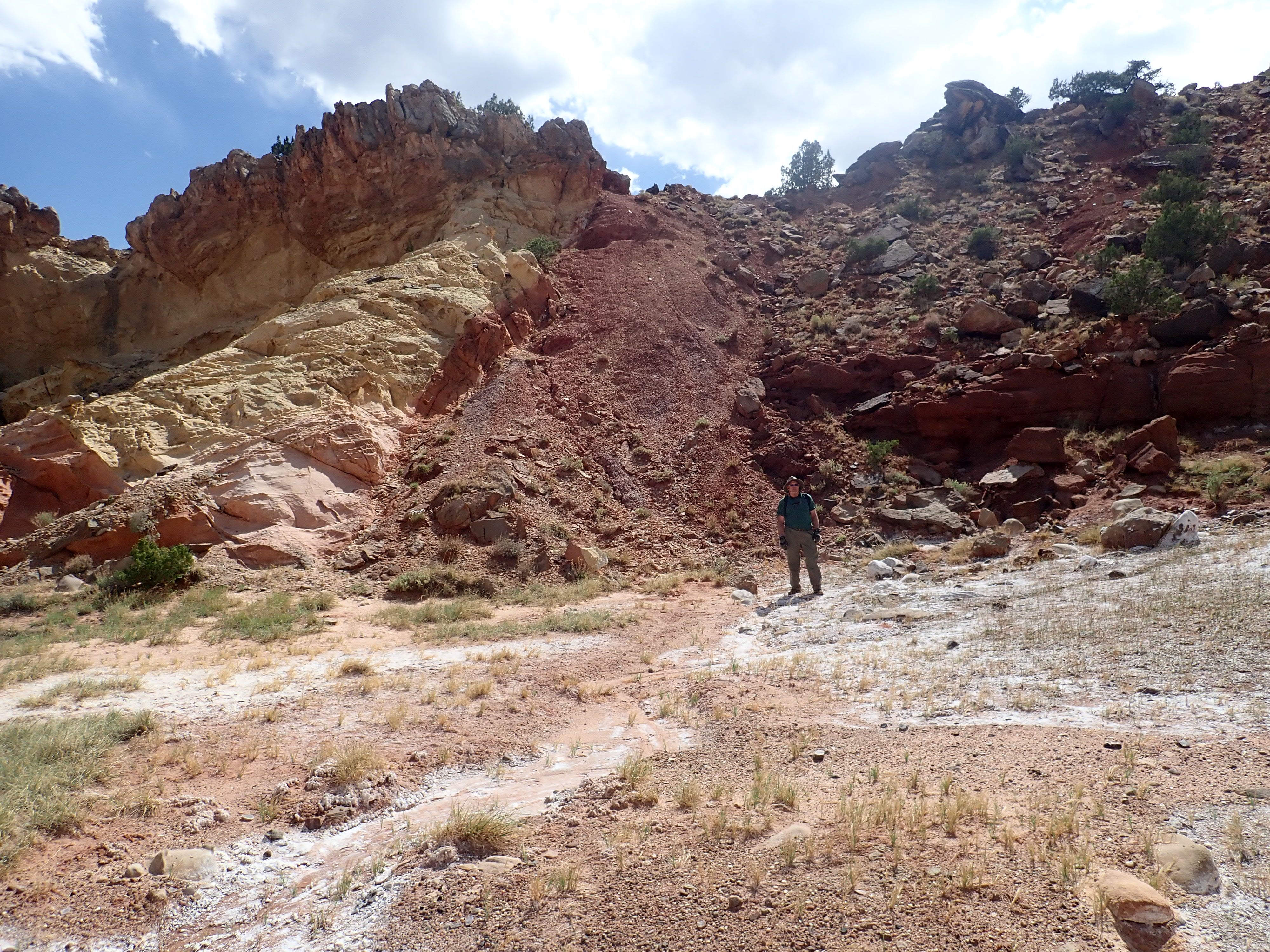 This images shows the Canones Fault, which separates the Rio Grande rift to the left from the Colorado Plateau to the right. The fault is marked by red fault gouge between Jurassic sandstone and gypsum beds of the Entrada and Todilto Formations to the left and older Permian red beds beds of the Arroyo del Agua Formation to the right. Displacement here is 355 meters, of which 206 meters is downthrow and 116 is left lateral.